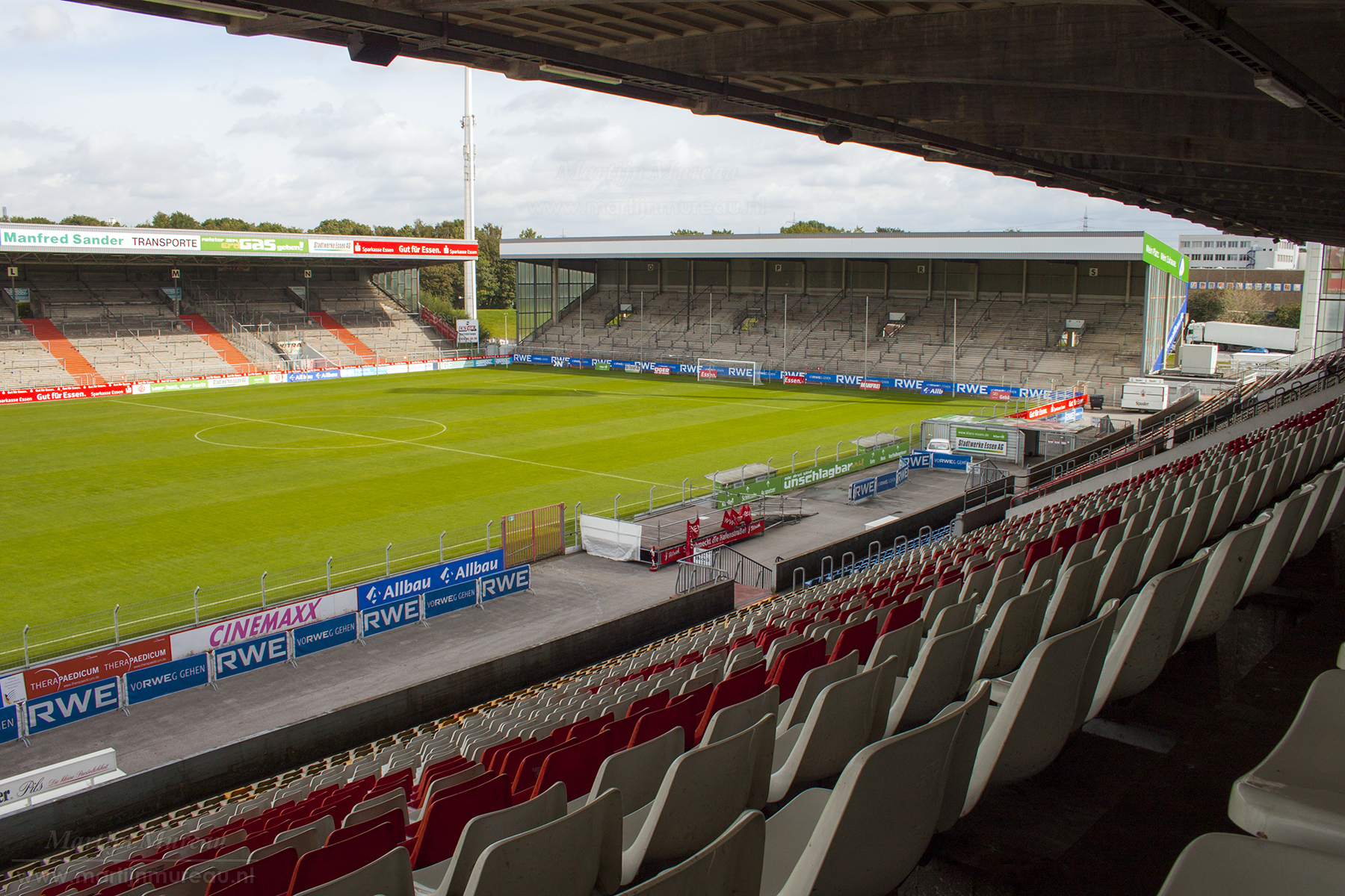 The demolished Georg Melches Stadion, untill 2012 home of Rot Weiss Essen